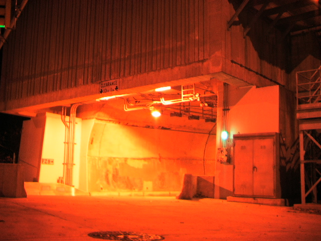 Northern portal of Wabash Tunnel in Pittsburgh, PA.